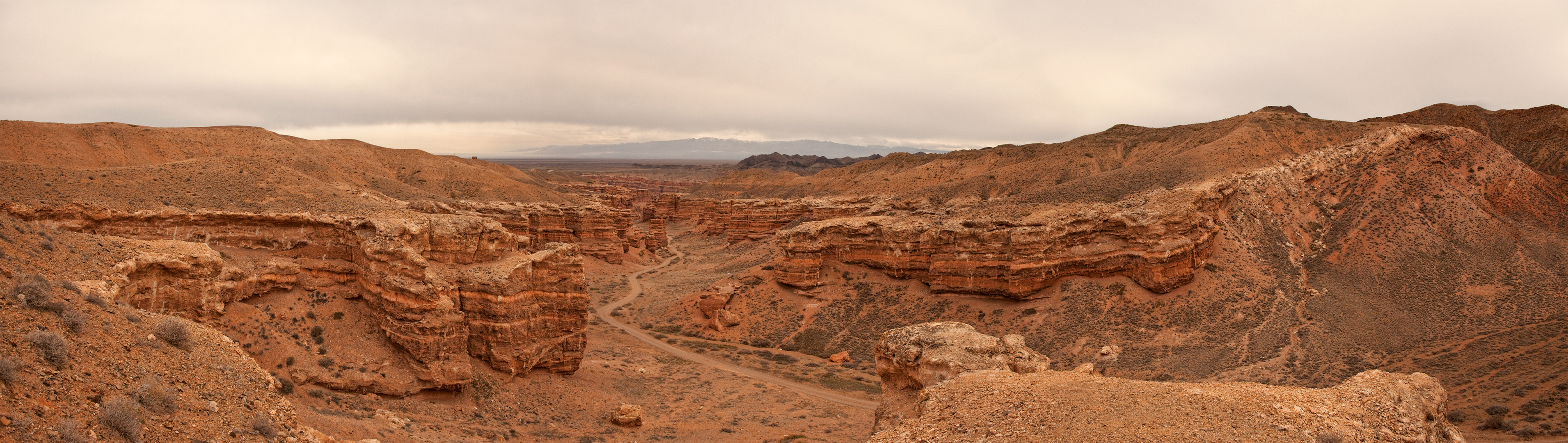 Charyn Canyon. Kazakhstan.